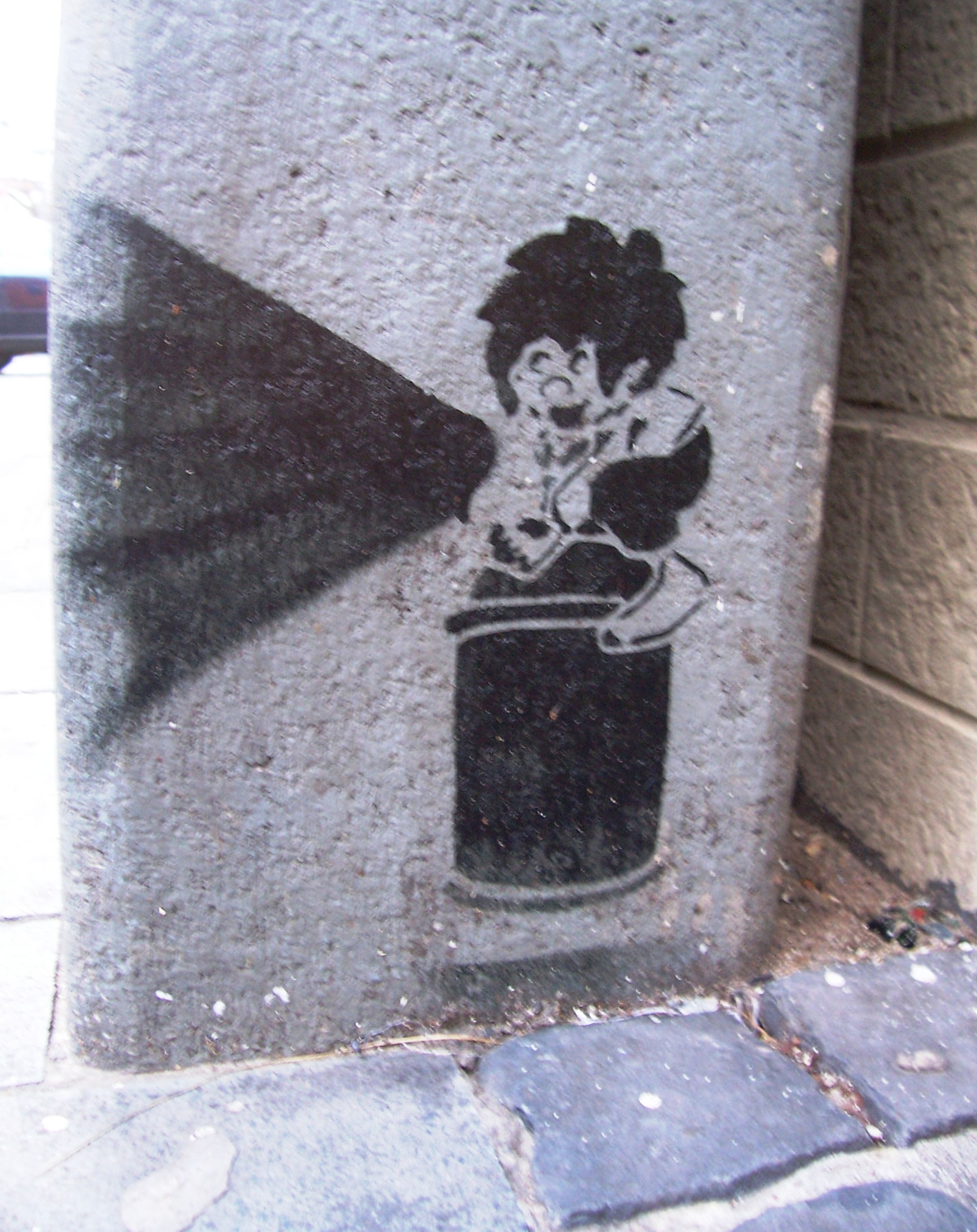 Pumuckl graffitti